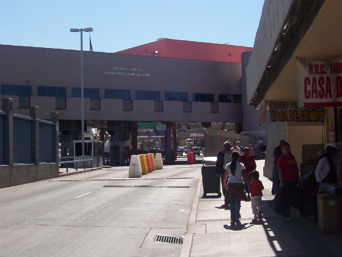 Entrance into Mexico at Nogales, AZ (USA)